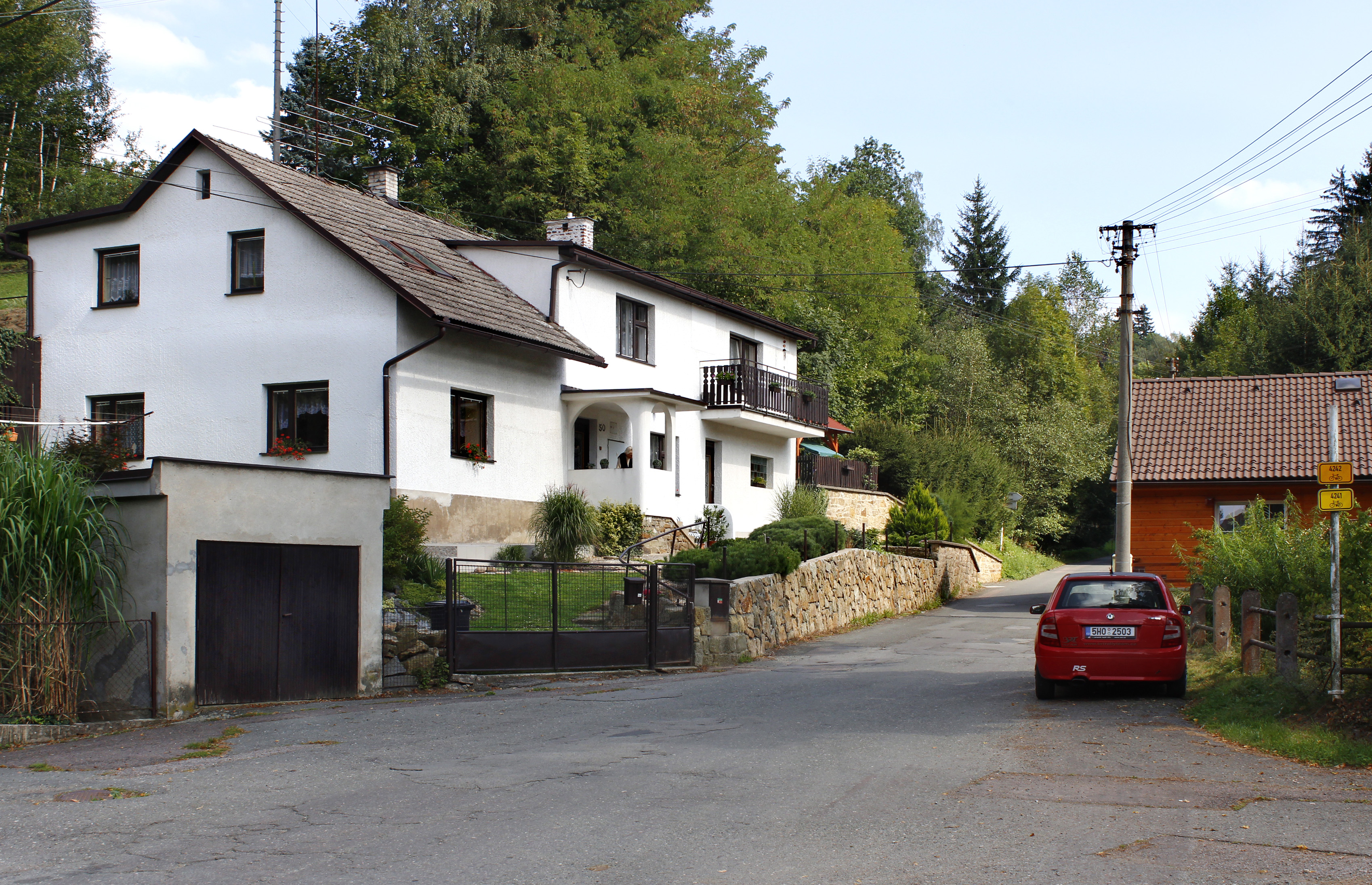 Side street in Skuhrov nad Bělou, Czech Republic